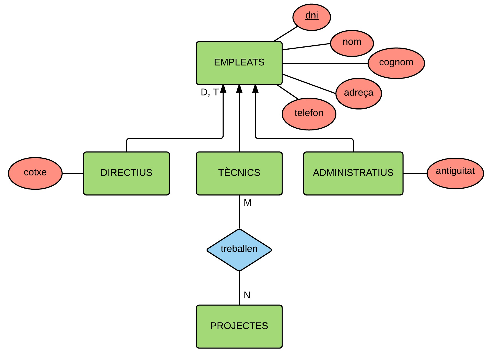 Subtyping example in ER Diagram's for Catalan's wikipedia article of Entity-Relationship diagram